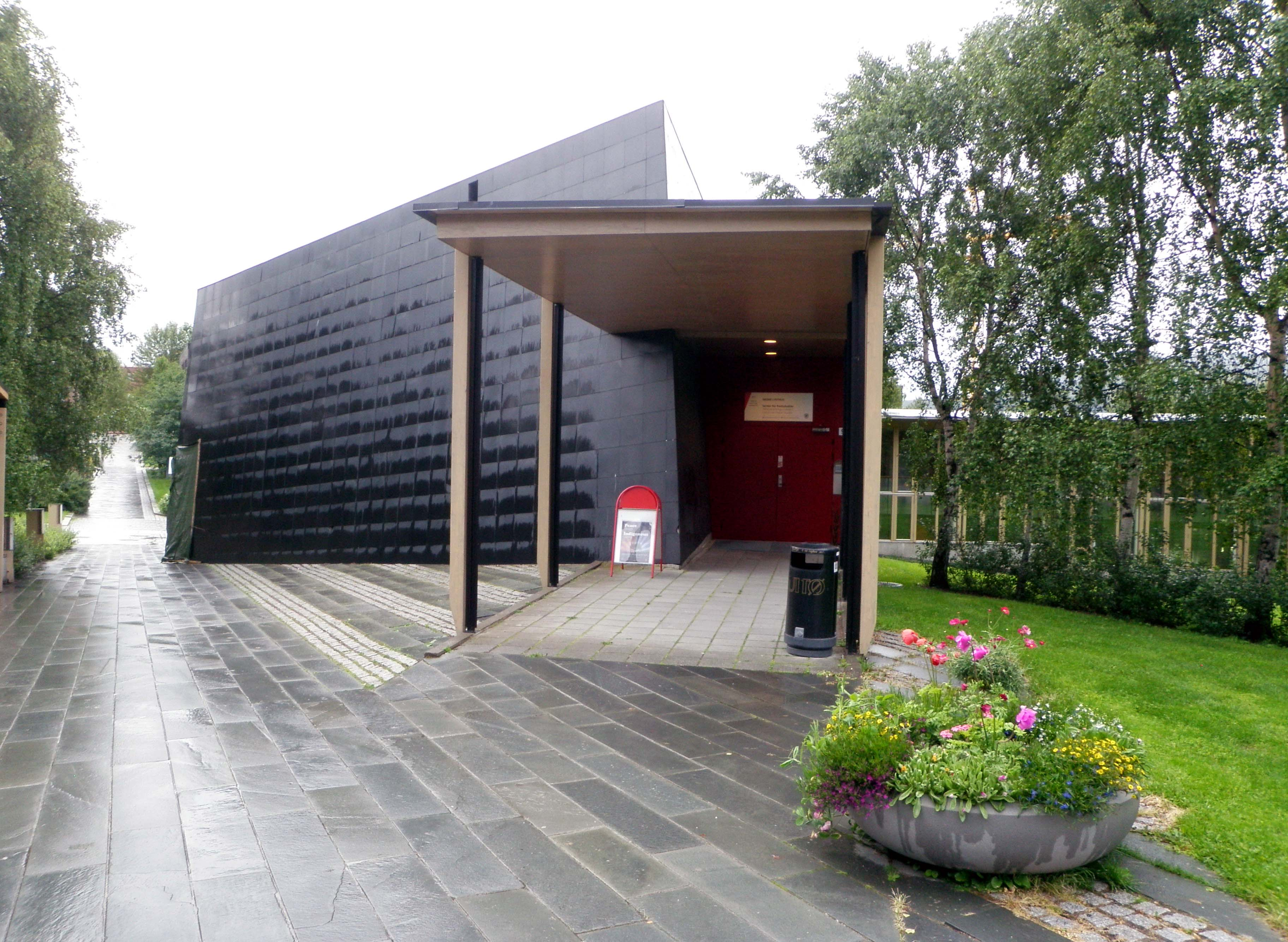 Lower pavilion entrance of the Centre for Peace Studies at the University of Tromsø, Tromsø, Norway.